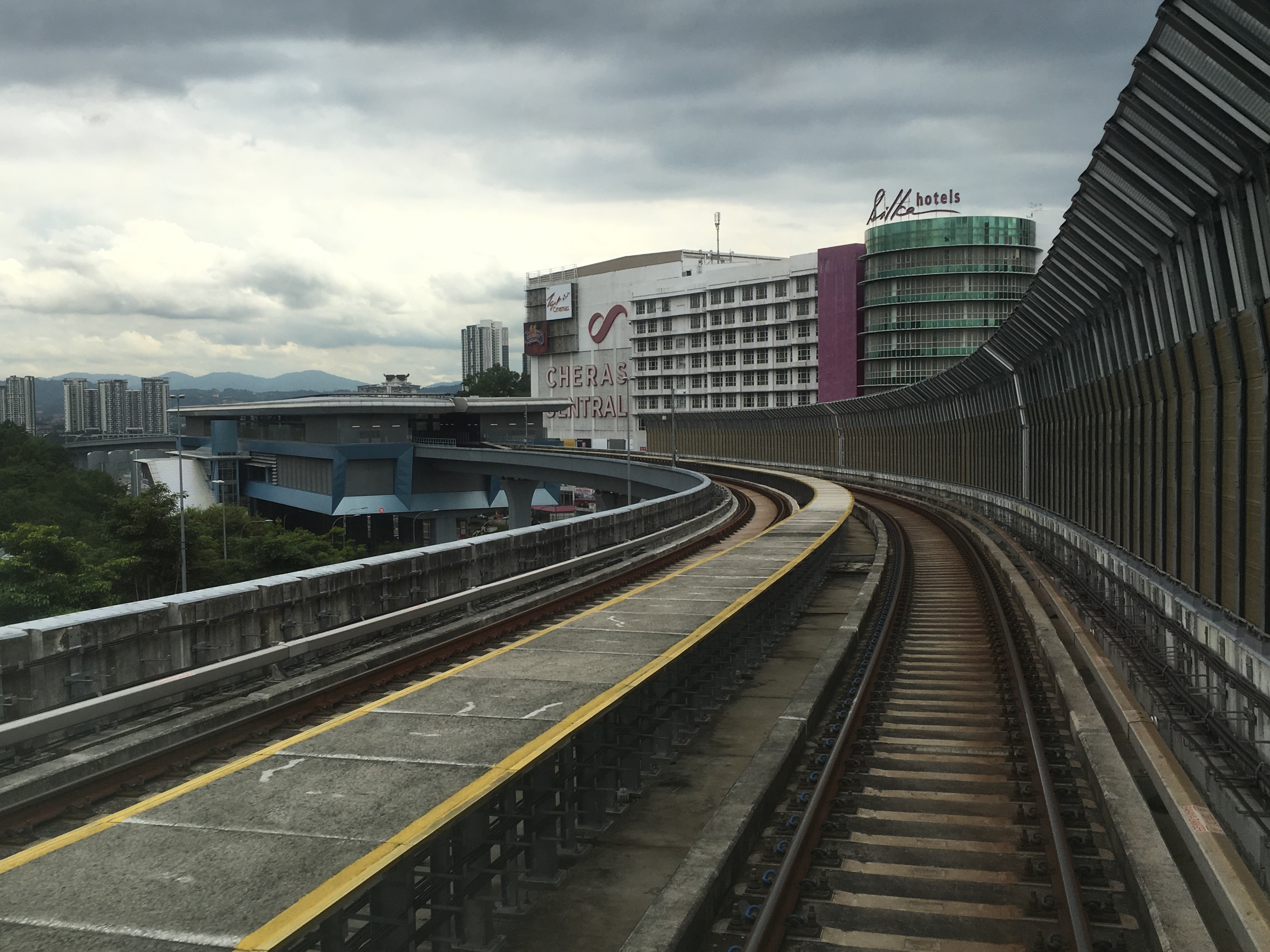 View of the Taman Connaught MRT Station from a train